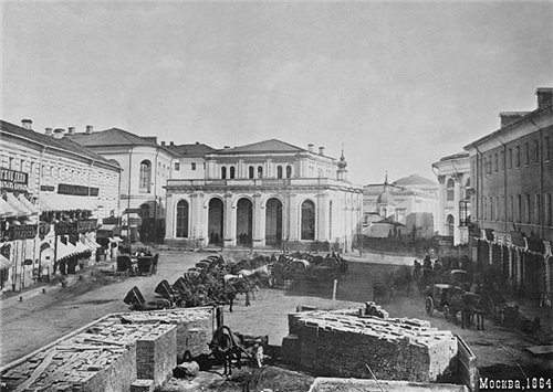 Moscow Exchange. 1864